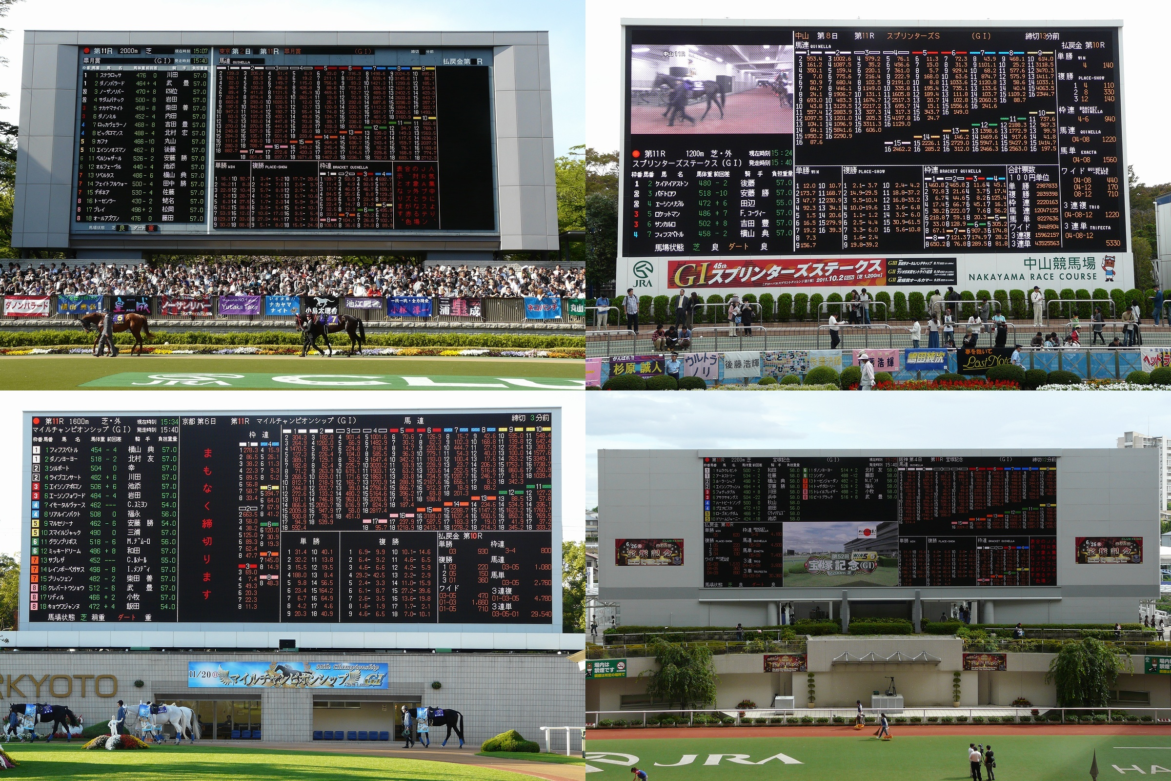 Odds-Board(JRA)